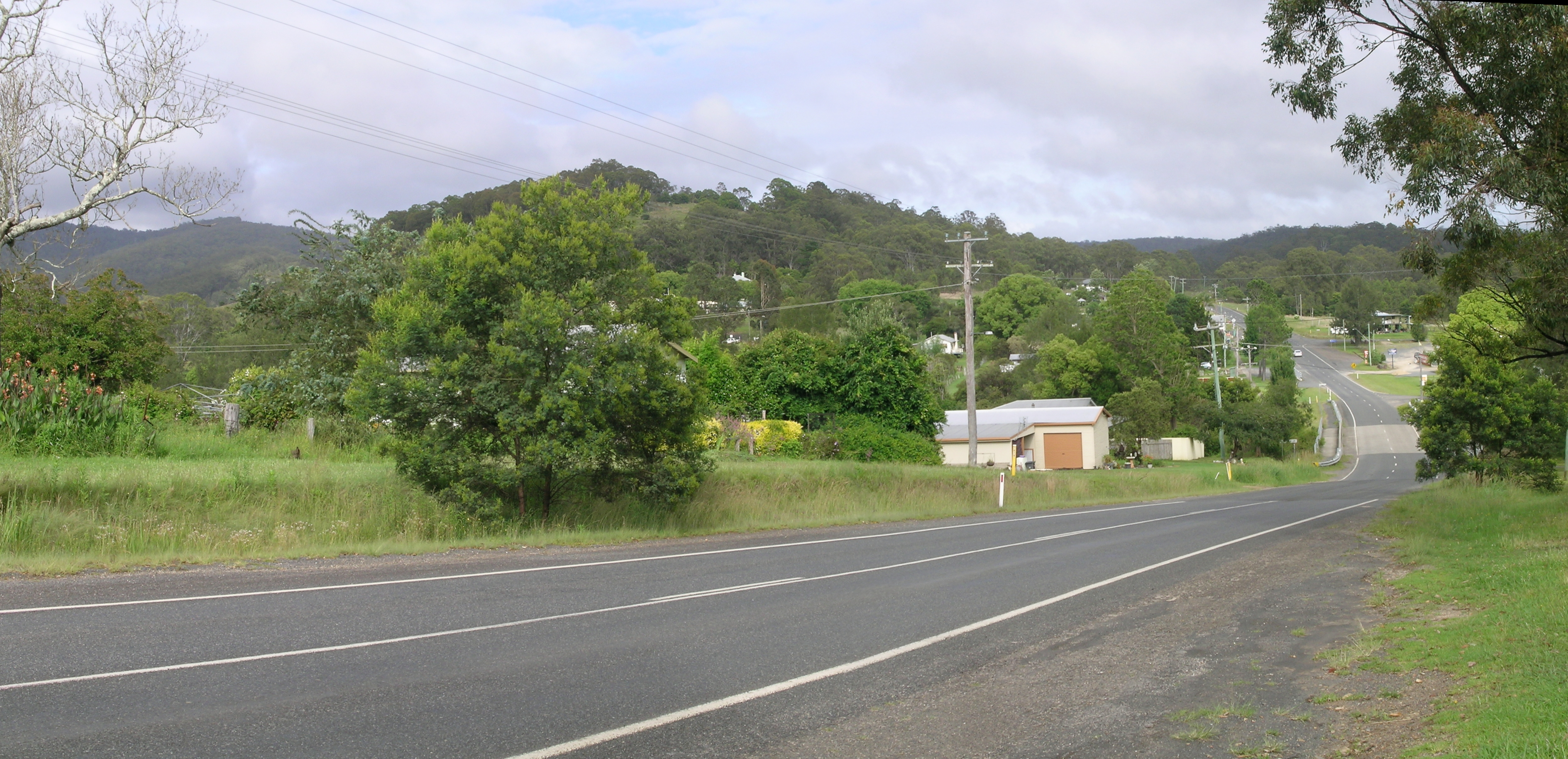 The Bruxner Highway (main street) of Drake, NSW.